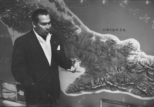 Cuban dictator Fulgencio Batista in March 1957, standing next to a map of the Sierra Maestra mountains where Fidel Castro's rebels were held up.